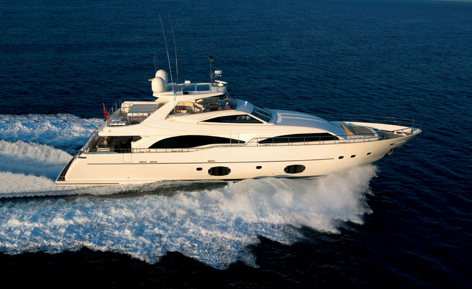 Exterior picture of Custom Line '97 Yacht